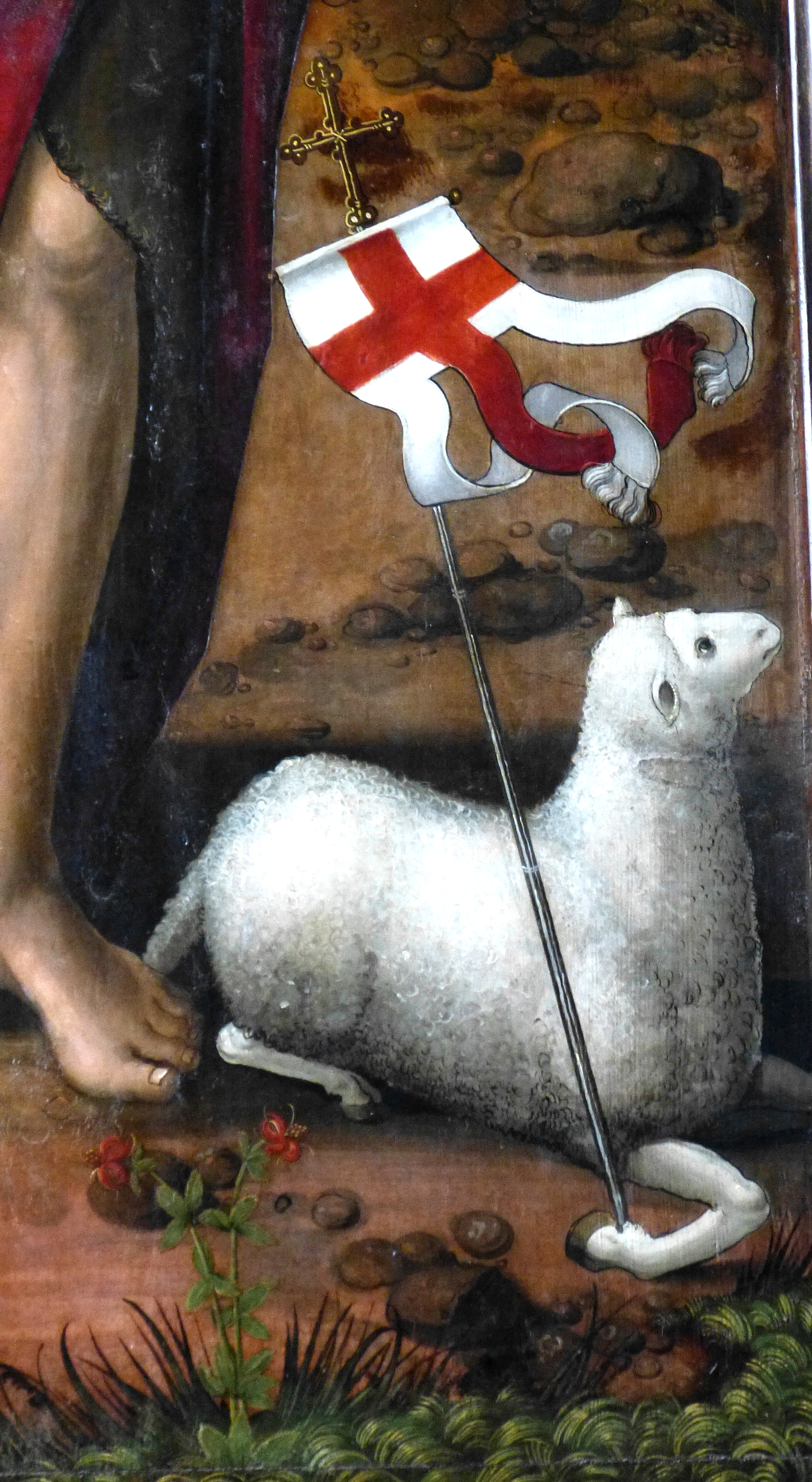 Schwabach - City church. Left wing of the High altar: Saint John the Baptist with lamb ( 1506-08 ) by the workshop of Michael Wolgemut - detail: Lamb of God.